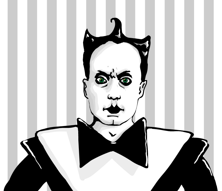 Klaus Nomi (illustration)